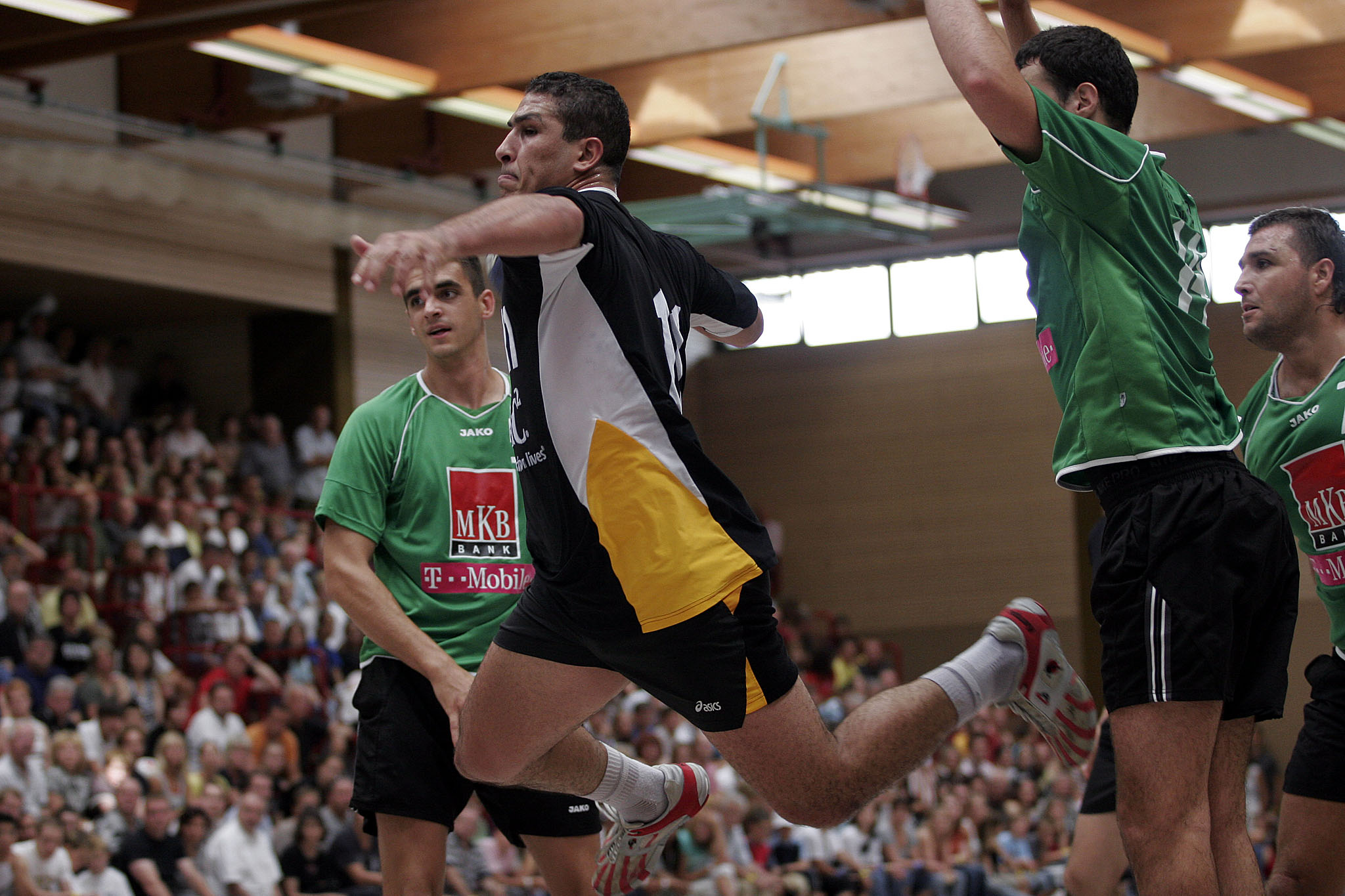 Issam Tej fom Montpellier HB, during the Schlecker Cup 20077 in Ehingen (Germany)